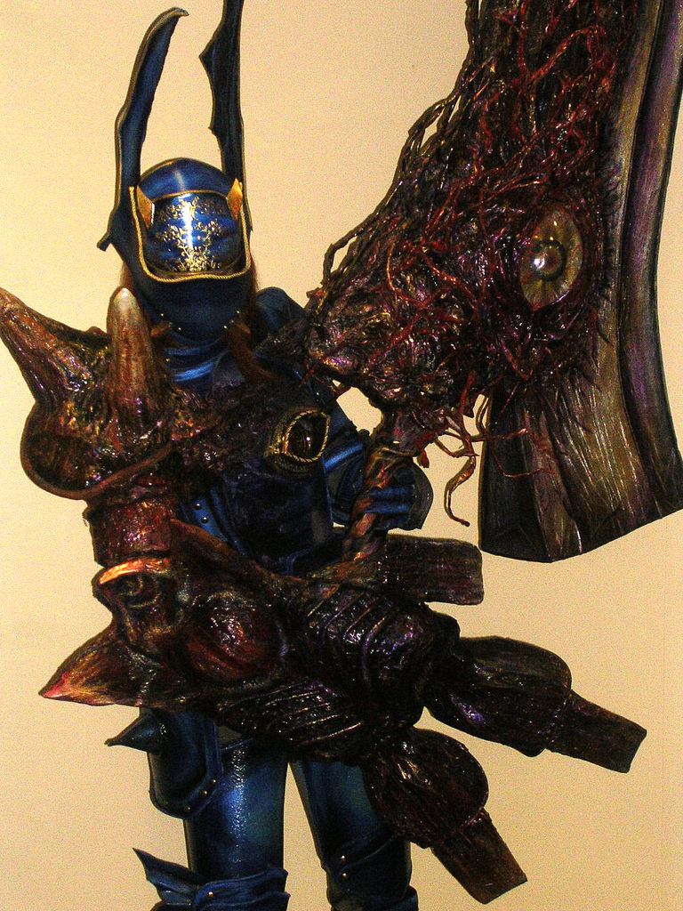 This photo was taken on January 7, 2006 using a Nikon E3200.